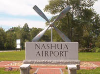 Entrance to Nashua's Airfield, Boire Field. Taken by user:karmafist